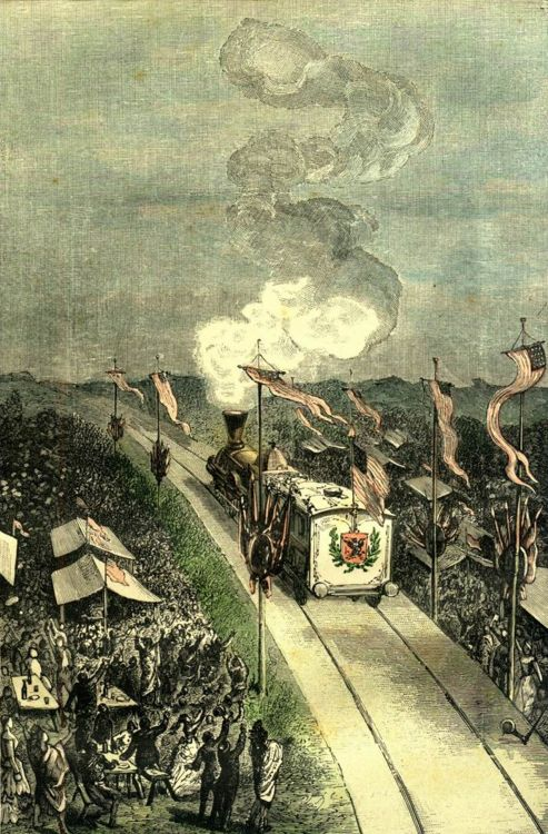 An illustration from Jules Verne's novel "Around the Moon" drawn by Émile-Antoine Bayard and Alphonse de Neuville.